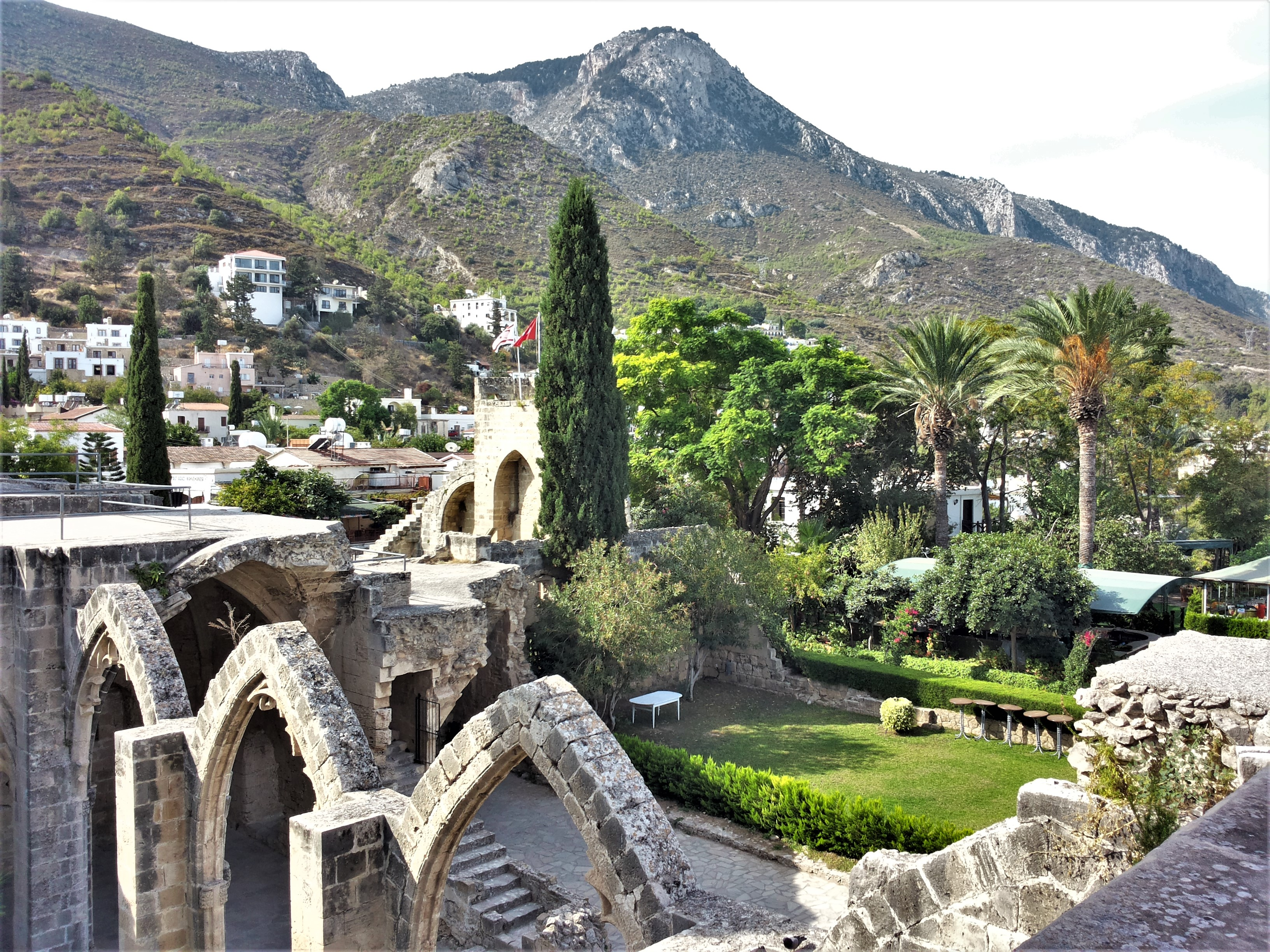 Bellapais Monastery - View to Pentadaktylos Mountains